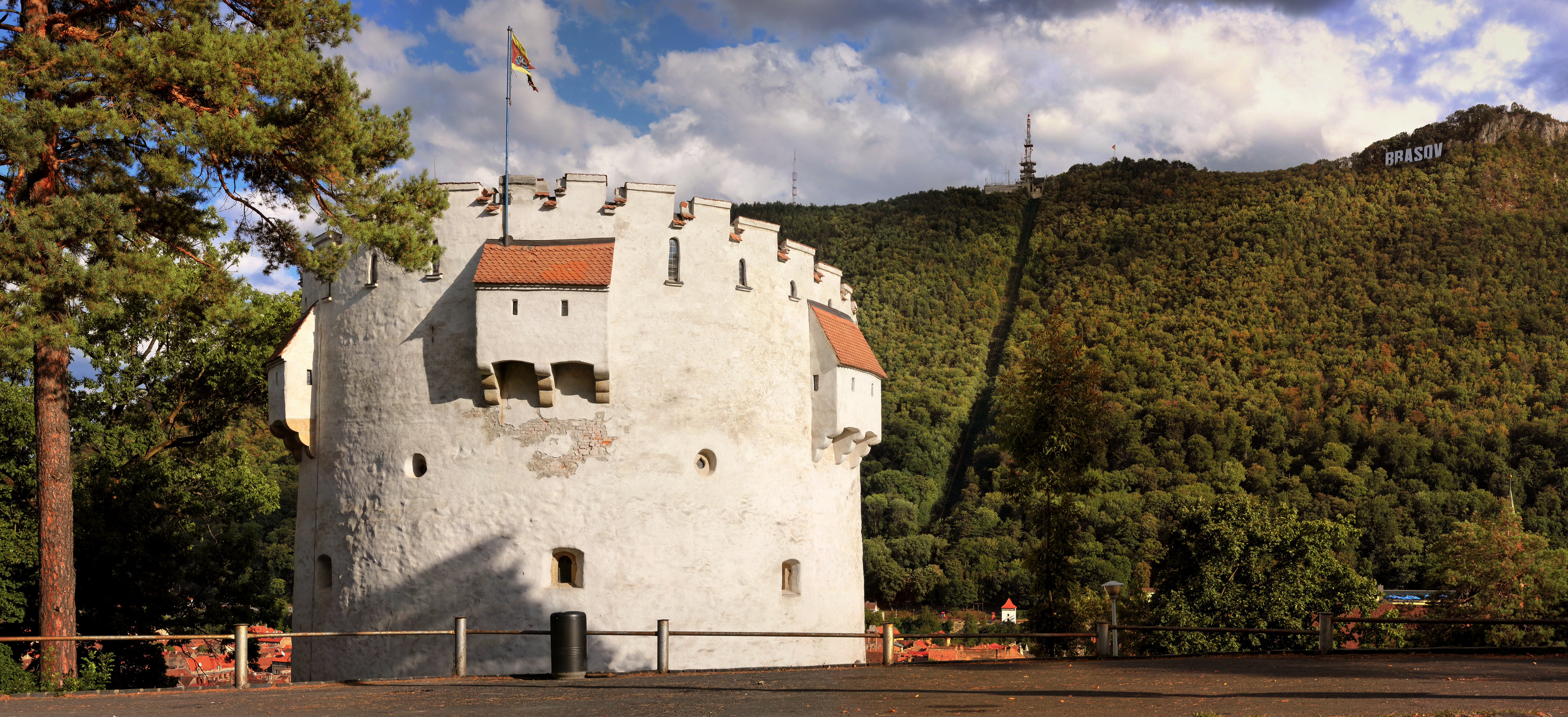 The White tower in Brașov with the Tâmpa mountain in the background 05